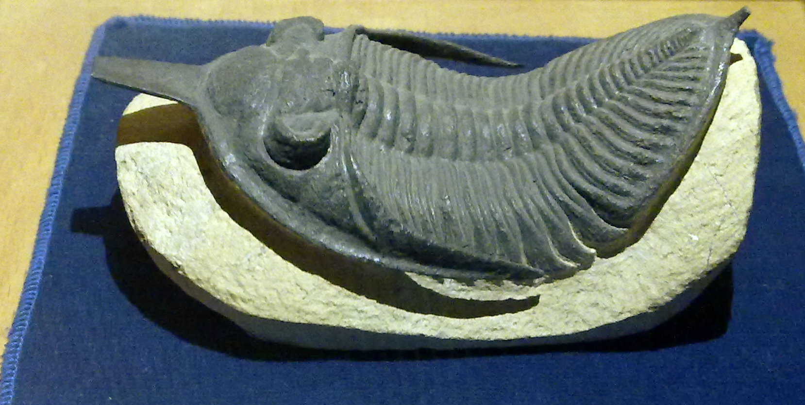 fossils embedded in rock.